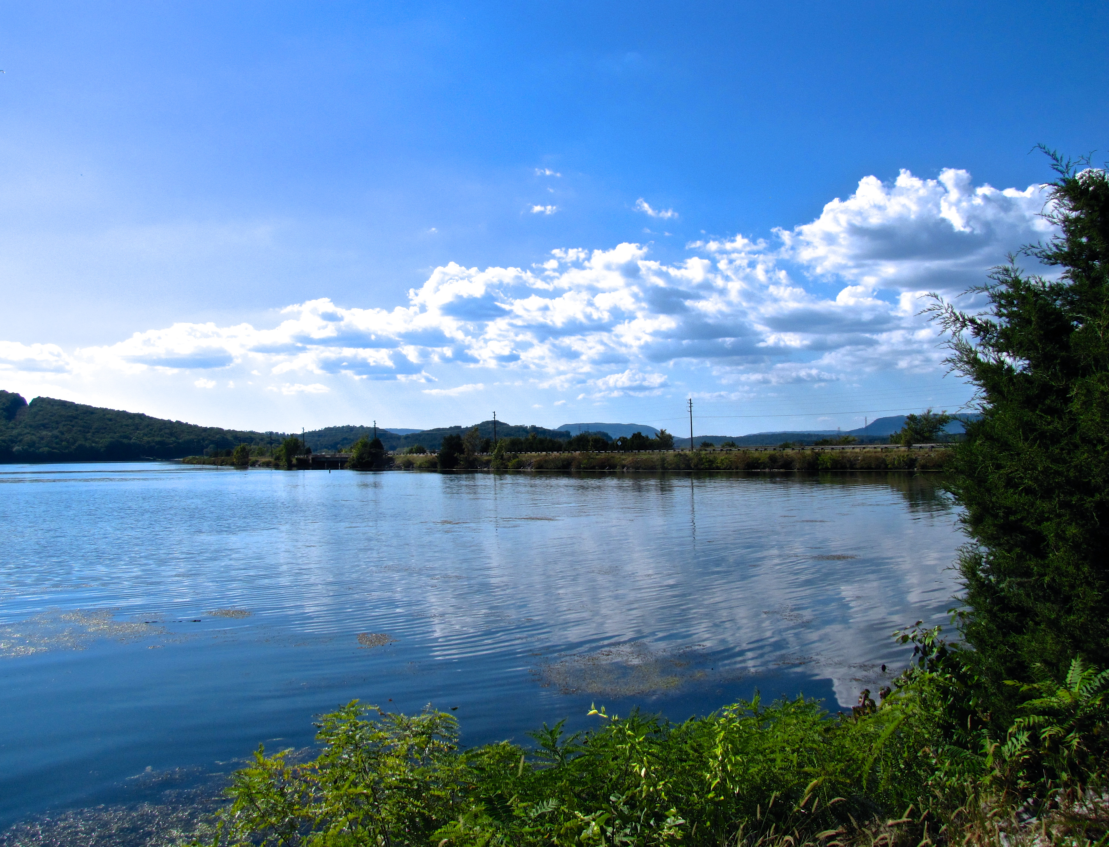 Nickajack Cove, part of Nickajack Lake, in Marion County, Tennessee, United States, viewed from Macedonia Road.